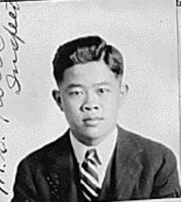 The photo in the application form to the United States Immigration and Naturalization Service originates from the Chinese Exclusion Act case file for James Wong Howe. Howe was a cinematographer who was nominated for 16 Academy Awards and won Academy Awards in 1955 and 1962.